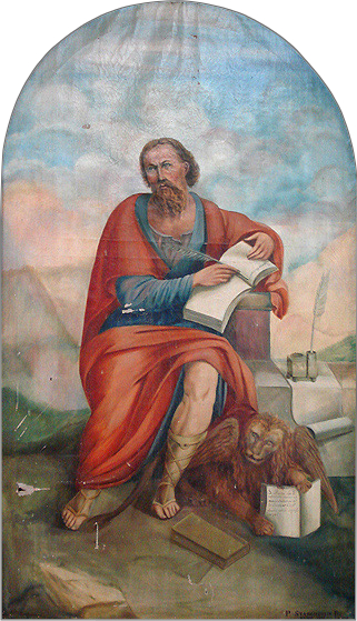 St. Mark, by Pietro Stangherlin. City Museum of Caxias do Sul, Brazil. Beginning of the XX century